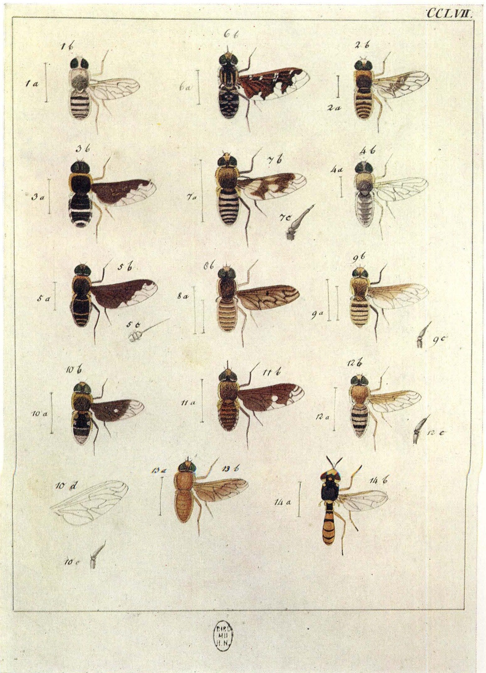 Johann Wilhelm Meigen, 1790 Abbildung der europäischen zweiflügeligen Insekten nach der Natur Von Joh. Wilh. Meigen zu Stolberg bei Aachen 1 Taf CCLVII Text here File:EuropäischenZweiflügeligen1790TafCCLVI-CCLXText.jpg Valid names and synonyms at Catalogue of Life (Annual Checklist) and Nomenclator. Types at MNHN collections database Note Europäischen Zweiflügeligen includes species described by previous authors - Linnaeus, Wiedemann, Fabricius, Scopoli, Forster, Fallen, Rossi, Macquart,Robert etc. 1 Anthrax quinquefasciata Wiedemann in Meigen 1820 synonym of Villa cana (Meigen 1804) 2 Anthrax elegans Wiedemann in Meigen 1820 synonym of Thyridanthrax elegans (Wiedemann in Meigen 1820) 3 Anthrax bicincta Wiedemann in Meigen, 1820 synonym of Hemipenthes velutina (Meigen, 1820) 4 Anthrax albina nomen nudum? 5 Anthrax nycthemera Wiedemann in Meigen, 1820 synonym of Hemipenthes velutina (Meigen, 1820) 6 Anthrax jacchus Fabricius, 1805 synonym of Exoprosopa jacchus (Fabricius, 1805) 7 Anthrax grandis Wiedemann in Meigen, 1820 synonym of Exoprosopa grandis (Wiedemann in Meigen, 1820) 8 Anthrax phaeoptera Wiedemann, 1820 synonym of Heteralonia phaeoptera (Wiedemann, 1820) (accepted name) 9 Anthrax minos Meigen, 1804 synonym of Exoprosopa minos Meigen, 1804 (accepted name) 10 Anthrax megerlei synonym of Exoprosopa megerlei Meigen, 1820 = E. aegyptiaca Macquart synonym of Villa cingulata Meigen, 1820 (accepted name) 11 Anthrax vespertilio Wiedemann, 1820 synonym of Heteralonia megerlei (Meigen, 1820) possible confusion see 10 12 Anthrax germari Wiedemann, 1820 synonym of Exoprosopa minos Meigen, 1804 (accepted name) 13 Anthrax aeacus Meigen, 1804 14 Conops silacea ?